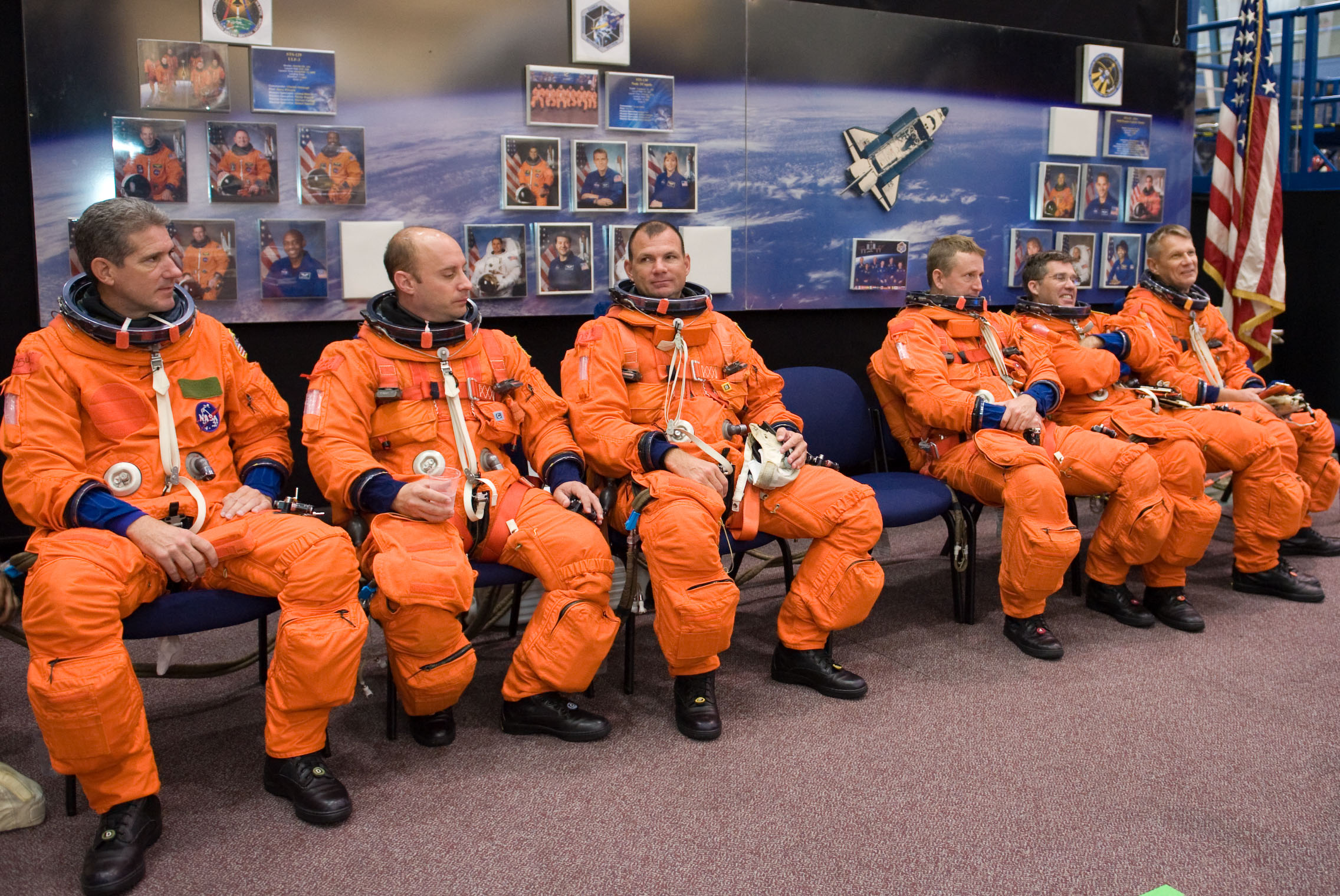 Astronauts Mike Good (seated, left), Garrett Reisman, both STS-132 mission specialists; Tony Antonelli, pilot; Ken Ham, commander; Steve Bowen and Piers Sellers, both mission specialists, during a training session in the Space Vehicle Mock-up Facility at NASA's Johnson Space Center. The crew members are attired in training versions of their shuttle launch and entry suits.